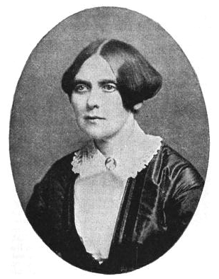 Portrait of Helen Eliza Benson, wife of W.L. Garrison